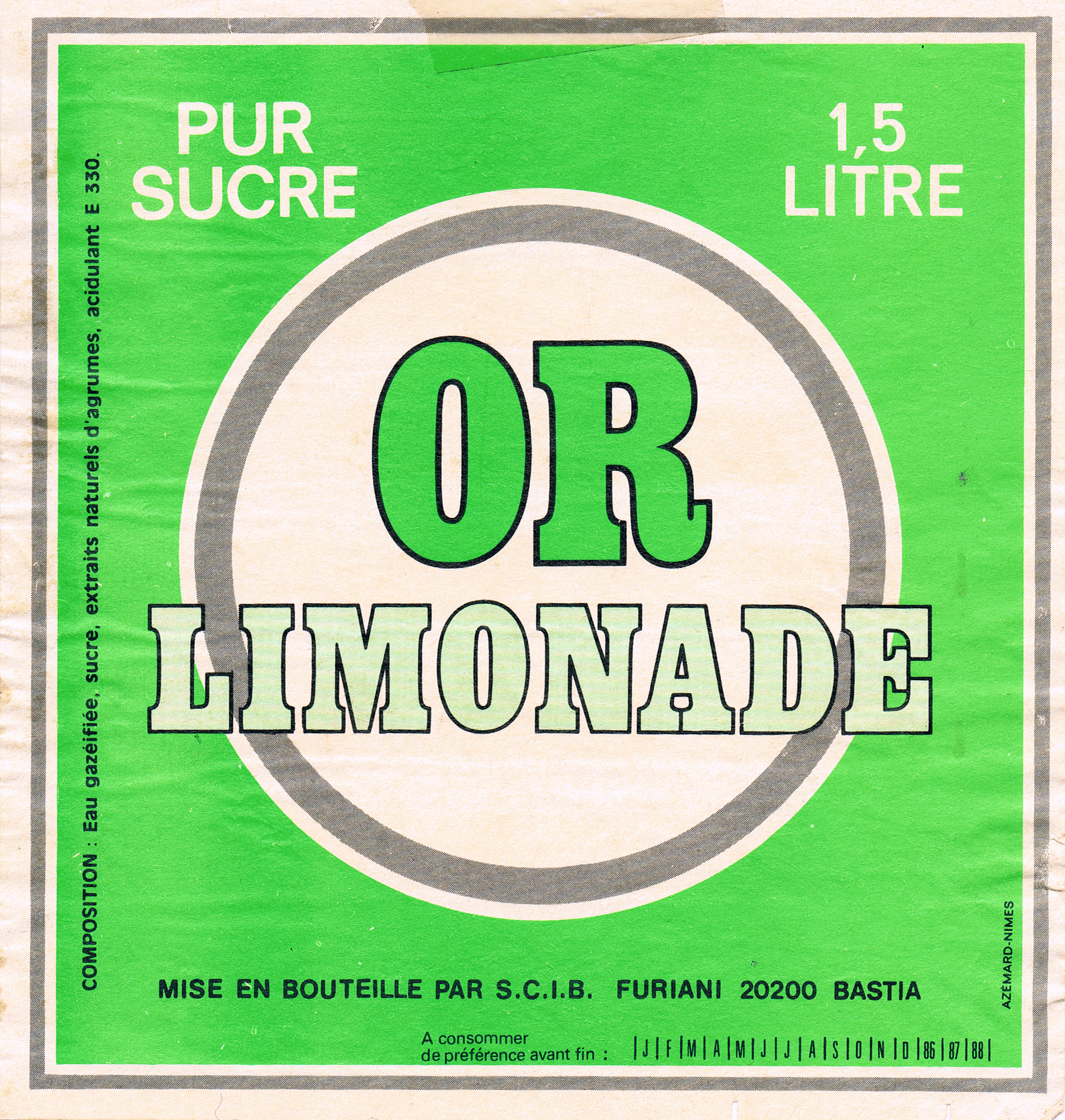 A corsican lemonade label, used in the eighties